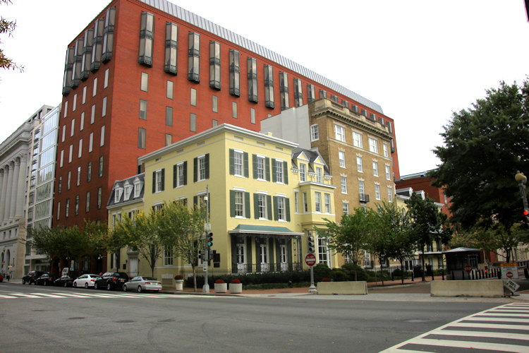 Looking across H Street NW at the northwest corner of the Cutts-Madison House (also known as the Dolley Madison House) at 721 Madison Place NW in Washington, D.C. in October 2009. The Howard T. Markey National Courts Building housing the United States Court of Appeals for the Federal Circuit is the tall, red brick building with modernist windows in back of the house.